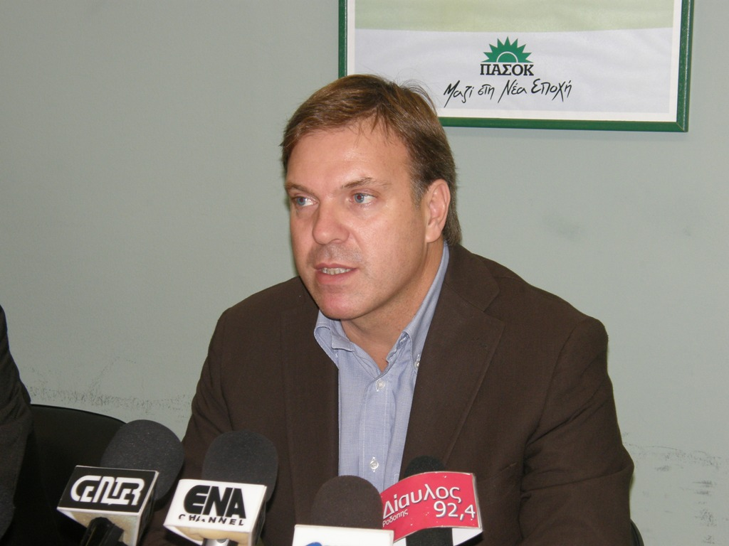 Giorgos Petalotis